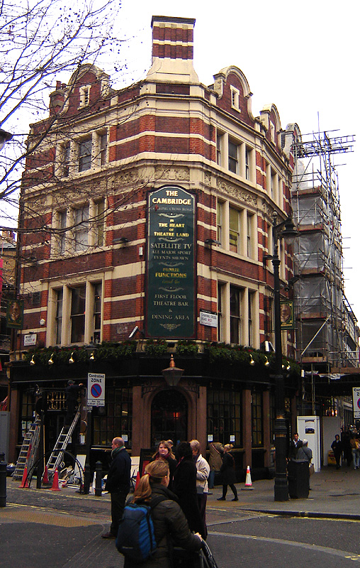 The Cambridge pub, Soho, London. 14 January 2006. Photographer: Fin Fahey.